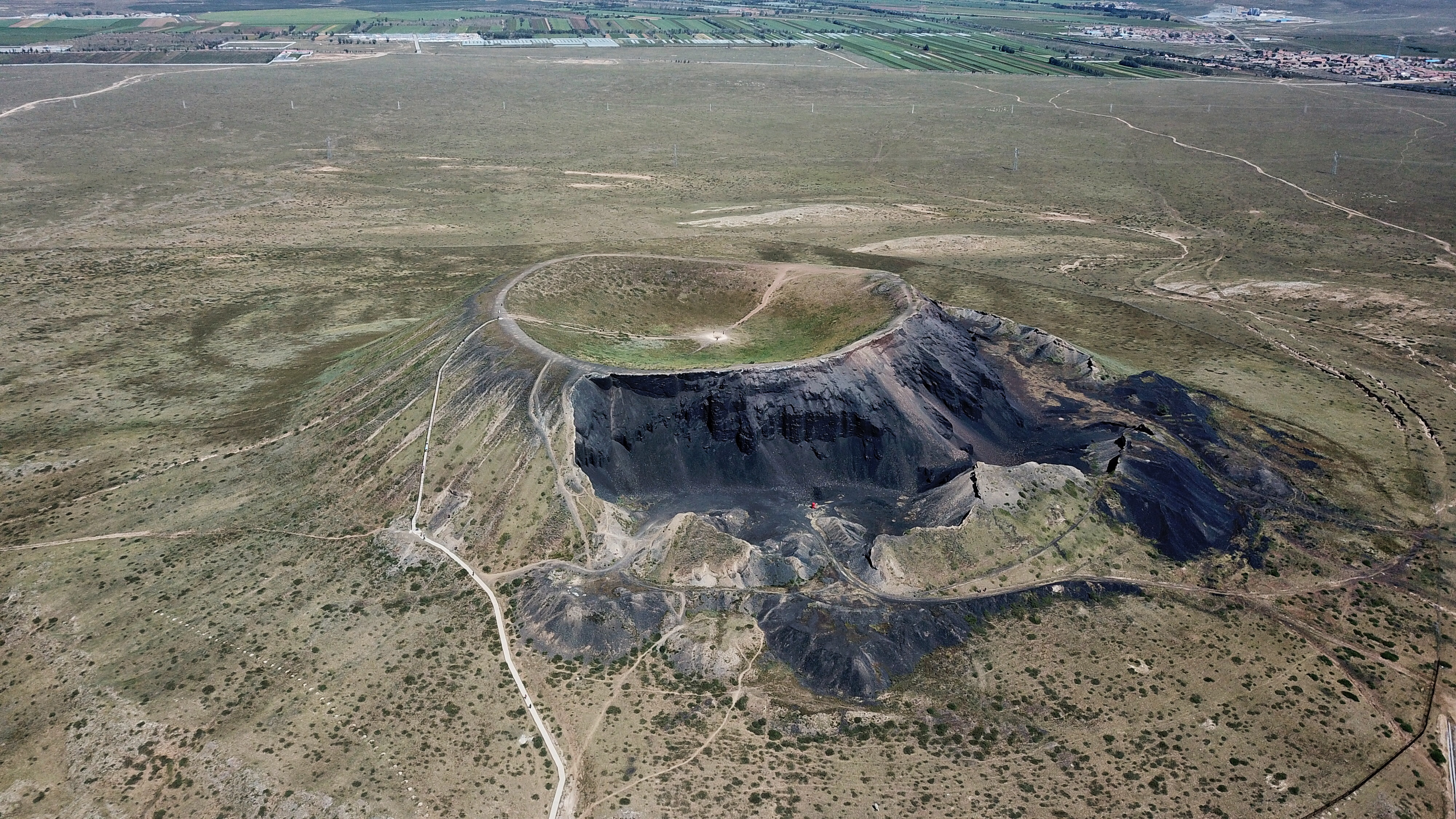 Northern Liandanlu volcano in Qahar Right Rear Banner, Inner Mongolian, China.